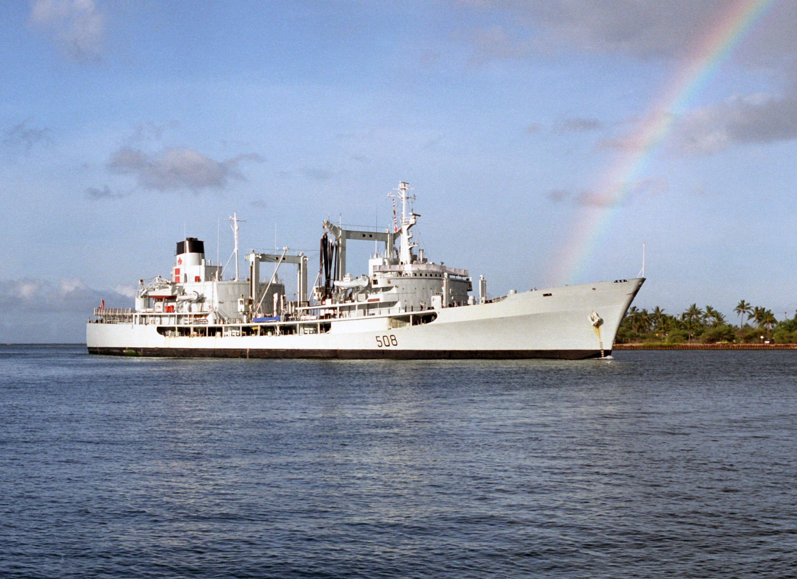 The Royal Canadian Navy replenishment oiler HMCS Provider (AOR 508) underway at Pearl Harbor, Hawaii (USA), during exercise "RIMPAC '86".